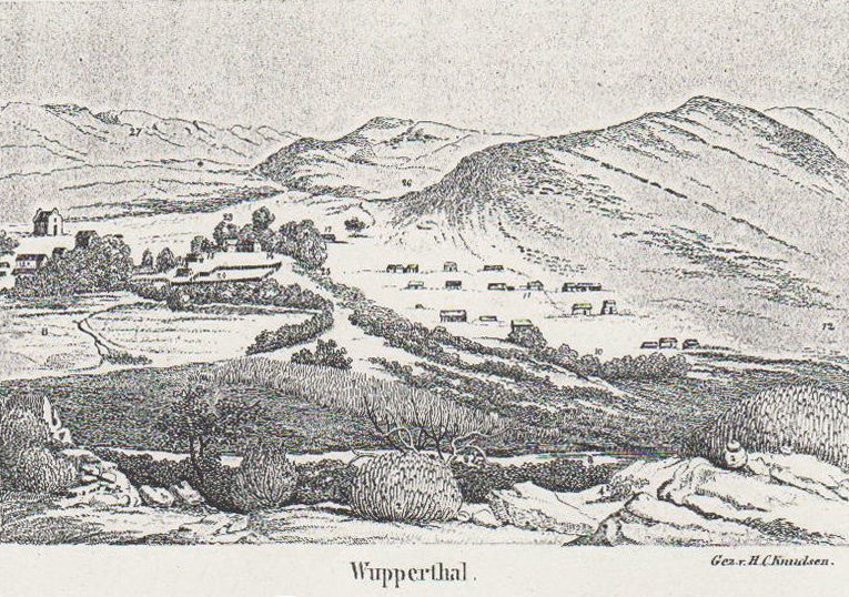 Sketch of Wupperthal, Western Cape in about 1850 by Hans Christian Knudsen